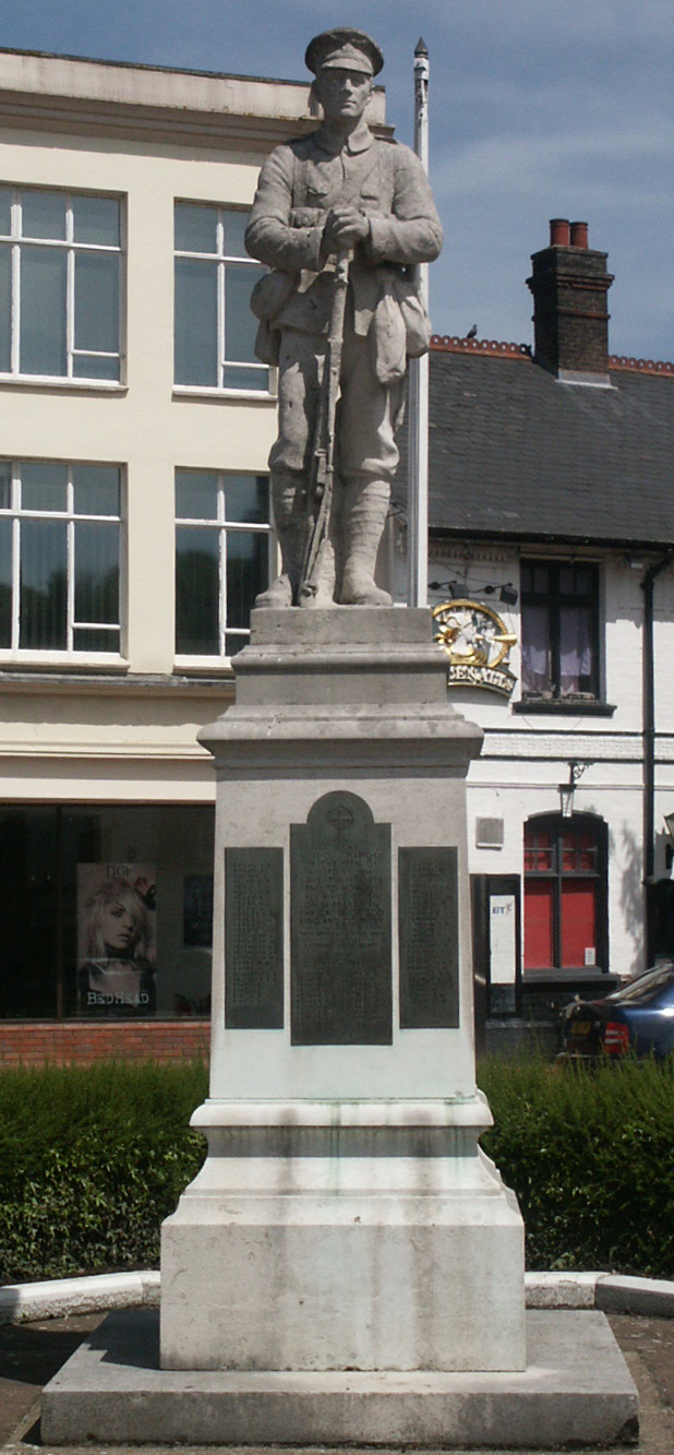 Chesham War Memorial.